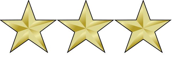 LASD Rank